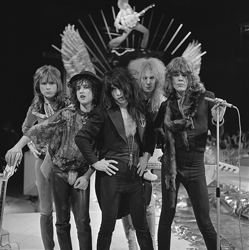 New York Dolls in AVRO's TopPop (Dutch television show) in 1973